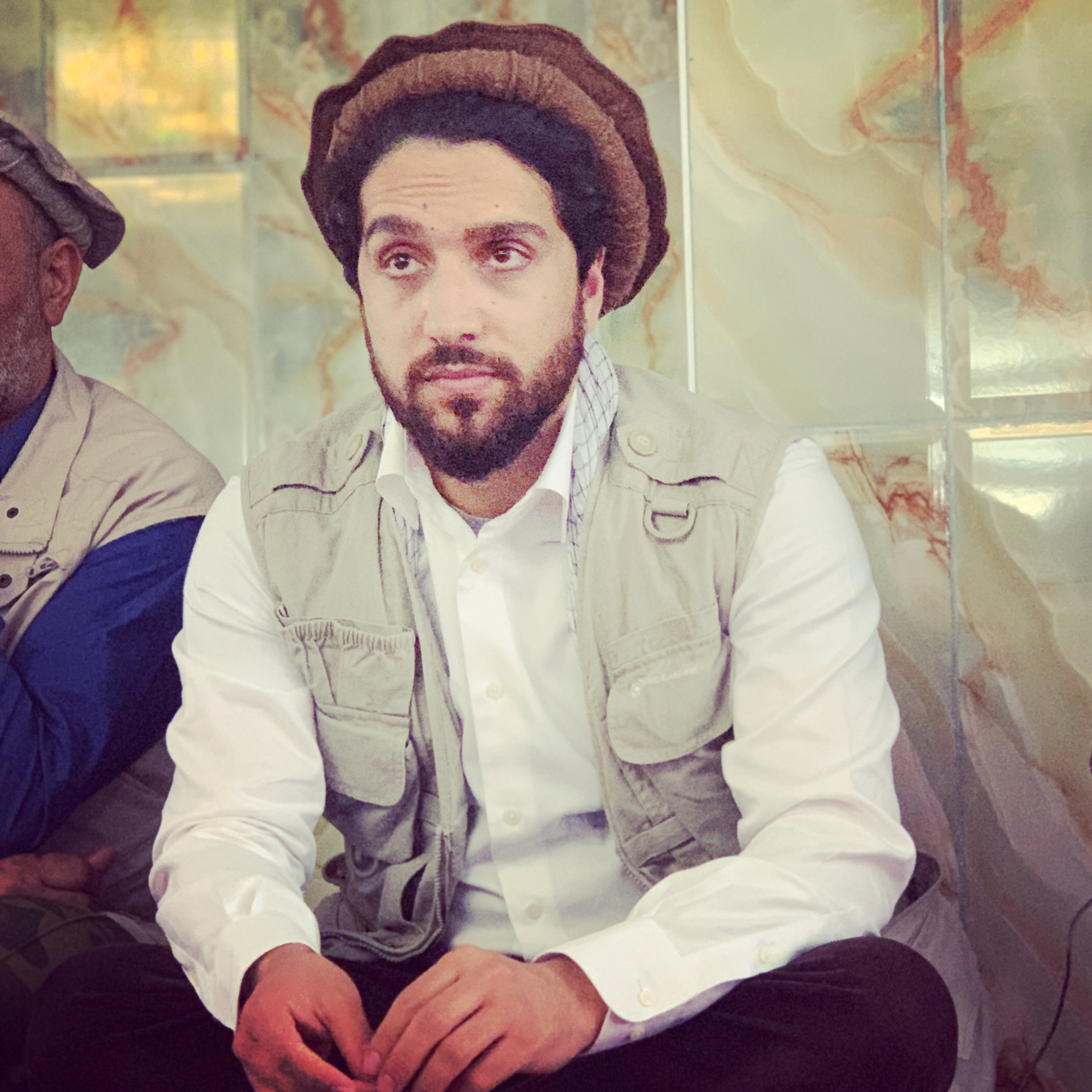 Photo of Ahmad Massoud, Son of Ahmad Shah Massoud